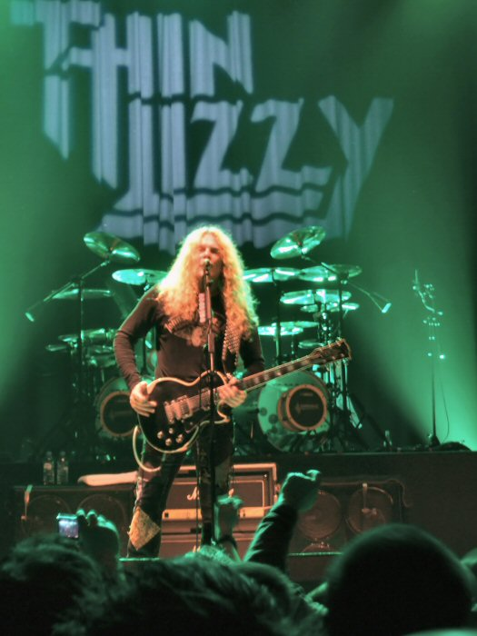 John Sykes with Thin Lizzy at the Music Hall in Aberdeen Scotland on 1st December 2007